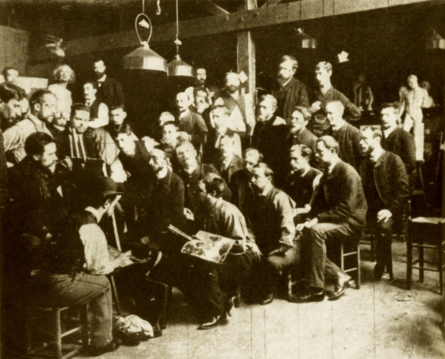 In Cormon's atelier. Cormon himself, bottom-center, at the easel; left to the easel, Henri de Toulouse-Lautrec. Pointer (near upper right corner) is set to young Émile Bernard.